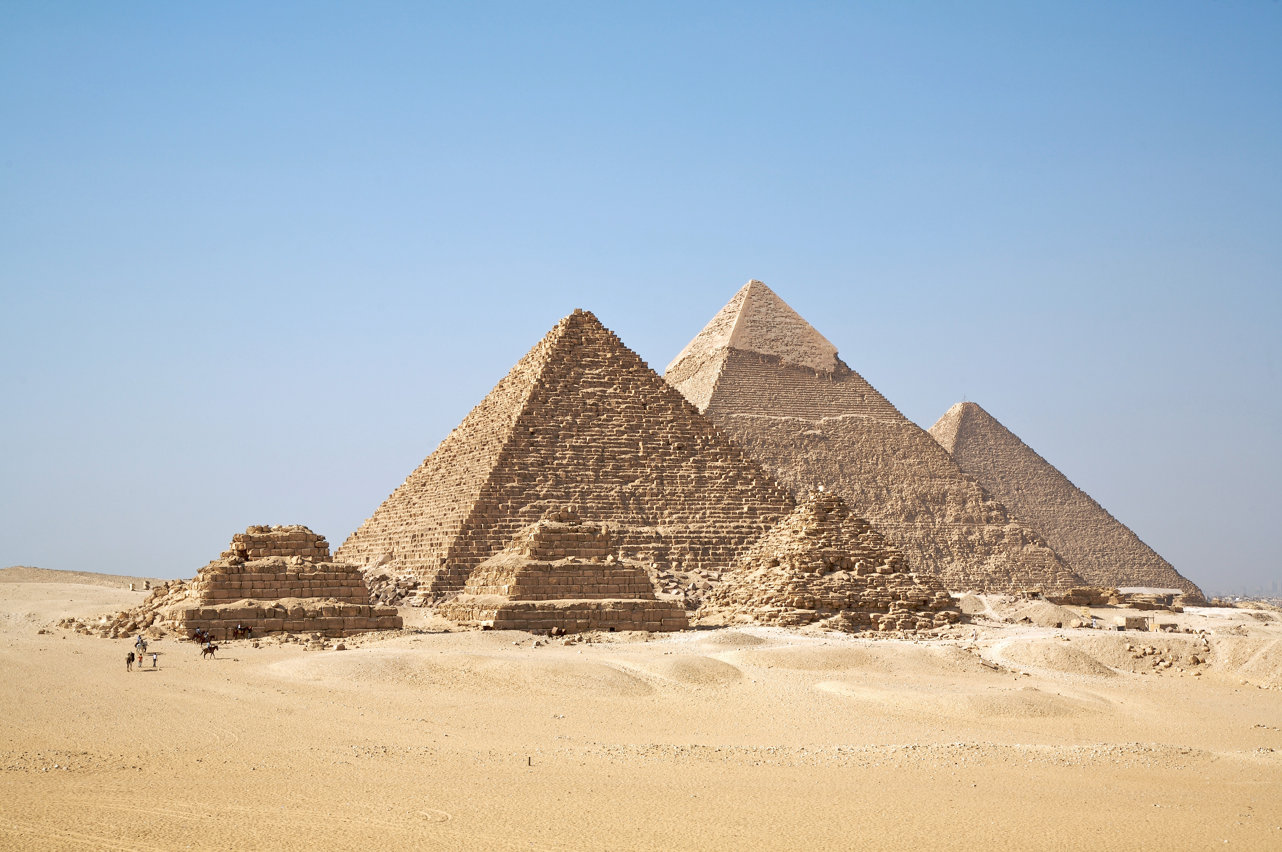 All Giza Pyramids in one shot.